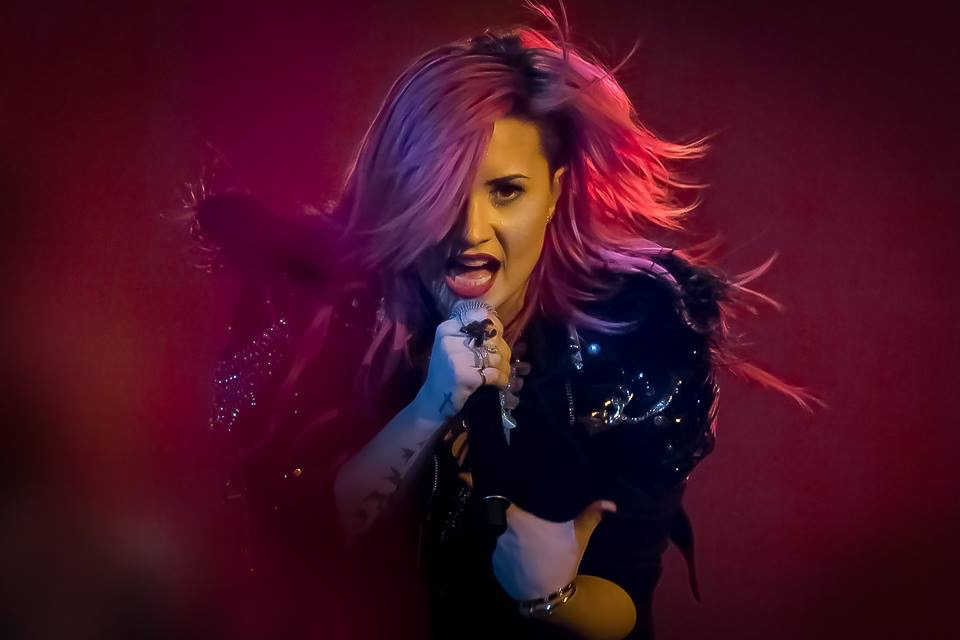 Image of pop singer Demi Lovato taken at the Air Canada Center in Toronto while on tour taken by Toronto Concert Photographer Don Quincy of DQC Photo.